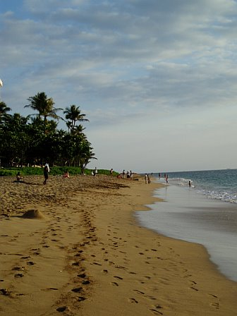 Photograph of Ka'anapali Beach taken in early October 2006